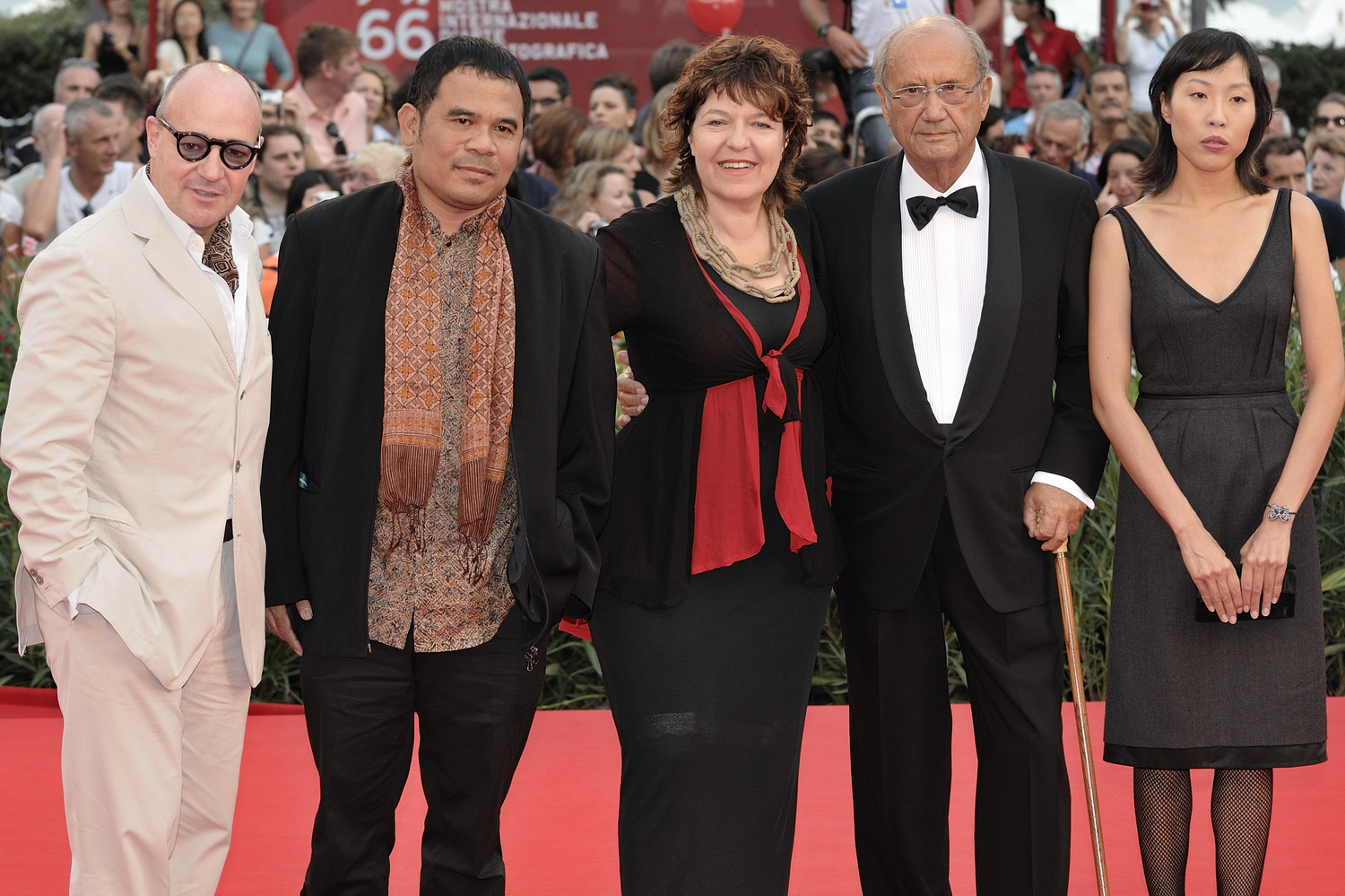 Members of the Orizzonti jury (from left to right): Gianfranco Rosi, Garin Nugroho Riyanto, Bady Minck, Pere Portabella, Gina Kim.